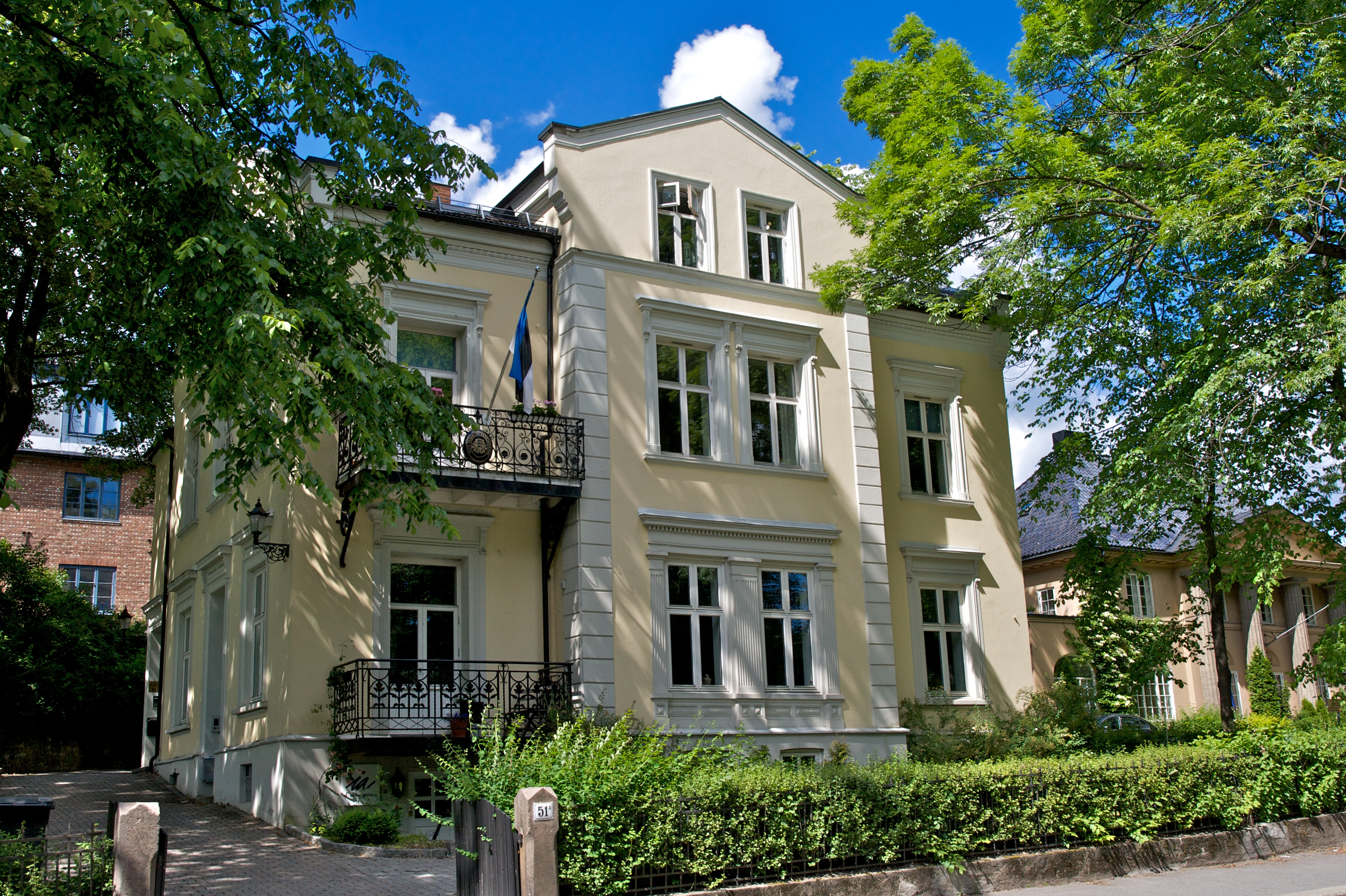 Estonian Embassy, Oslo, Norway.